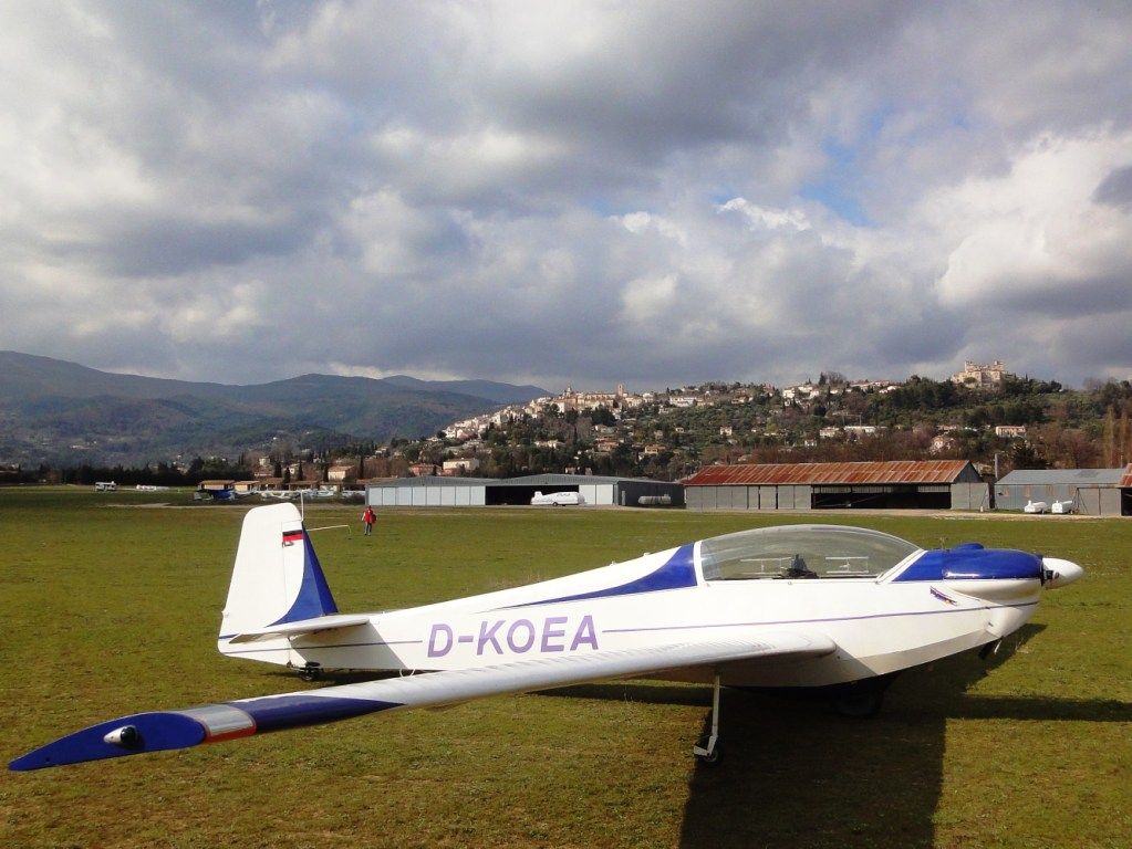 a Scheibe SF28 Motorglider in Fayence, Provence, France